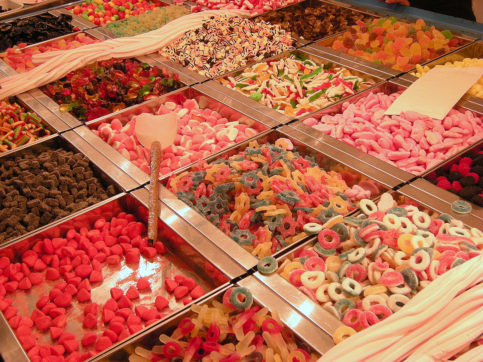 Sant'Agata candies